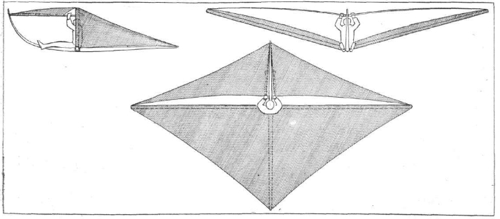 Platz glider schematic 1922. This was drwn to show the general layout: it may lack detail and not be to scale